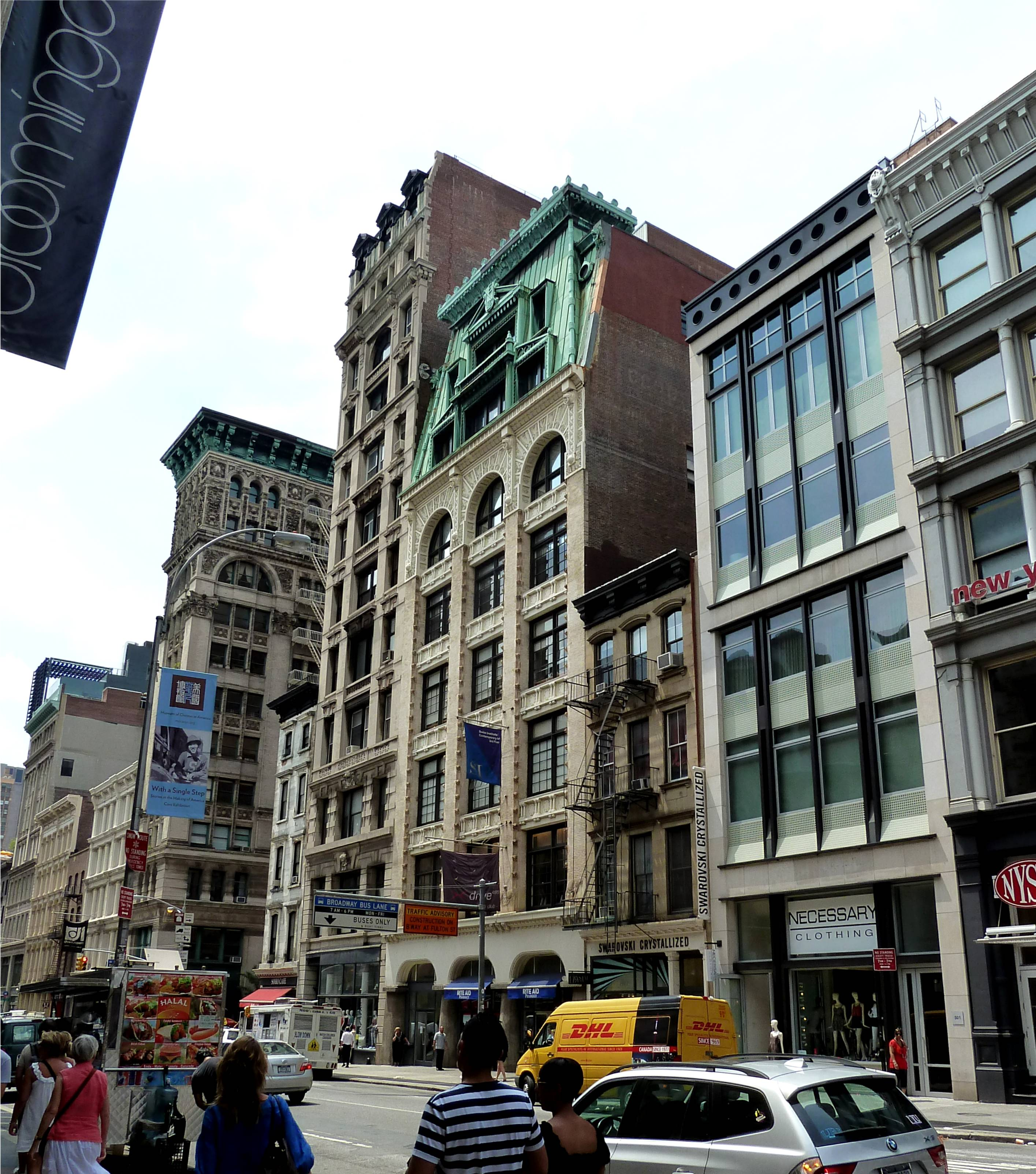 New Era Building, 495 Broadway, between Broome and Spring Streets, New York (building in center with copper roof)